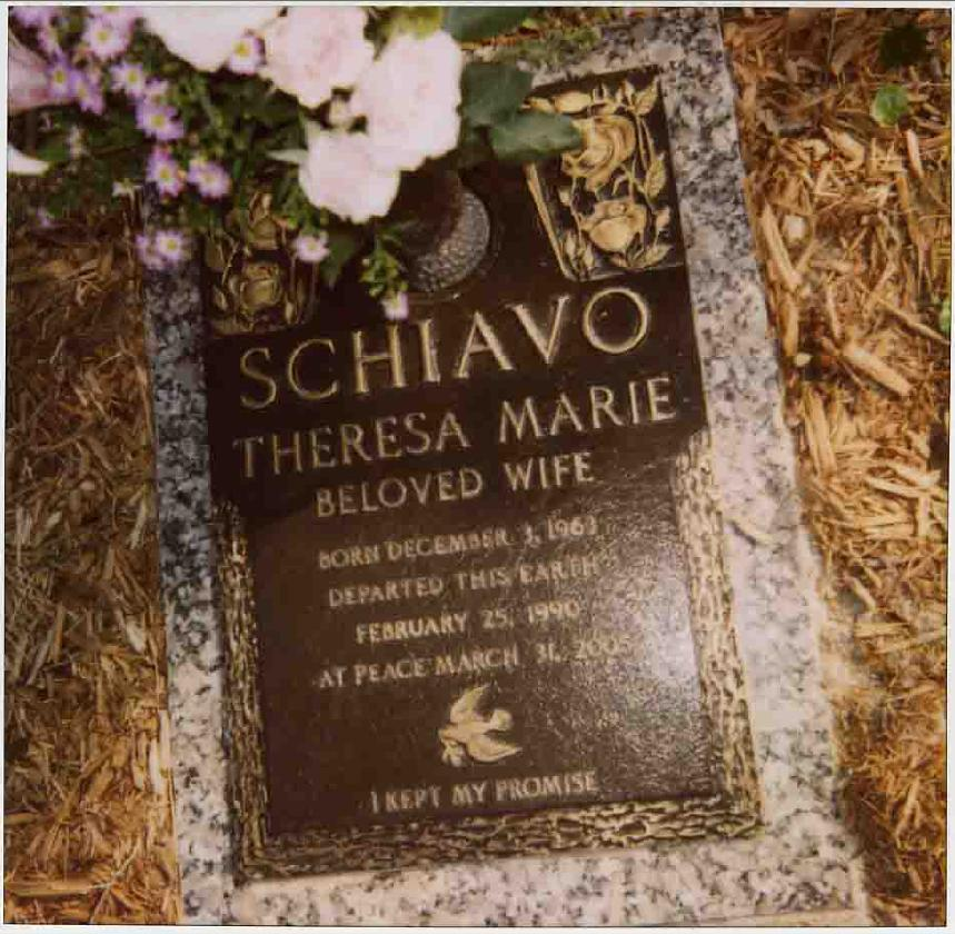 This is a photo that I, Gordon Wayne Watts, took on Saturday afternoon, 03 September 2005, and I release it under the terms of the GNU Free Documentation License, Version 1.2 or any later version published by the Free Software Foundation; with no Invariant Sections, no Front-Cover Texts, and no Back-Cover Texts, etc., as described in the comments here.